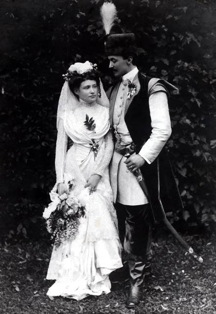 Helena and Stanisław Sierakowski, wedding photo, 1910